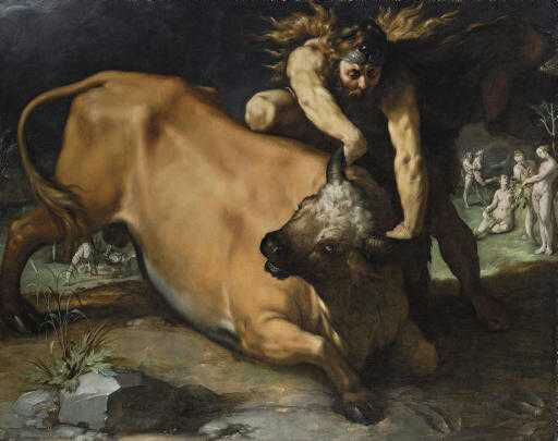 Cornelis Cornelisz. van Haarlem, Haarlem 1562-1638. Hercules and Achelous, signed and dated 'AO 90 CCornely H fe'oil on canvas75 5/8 x 96 in. 192 x 244 cm. Provenance (probably) Jacob Rauwert collection, Amsterdam, by descent to his son Claes; sale, Amsterdam, 28 August 1612 as '1 doeck Hercules' (to Hendrick van Os). (Probably) inventory of the estate of Herman Becker, Amsterdam, 19 October 1678, fol. 285v: 'In de sal naest het voorhuijs: Een hercules van Mr. Corn[elis] van Haarlem'. Potschien, Berlin, circa 1925, and by descent. Confiscated by the East German Government in December 1985. Transferred to the Bode Museum, 1986. Gemäldegalerie, Berlin, 1998-2006. Bode-Museum, Berlin, 2006-2008. Restituted to the present owner, 2008.